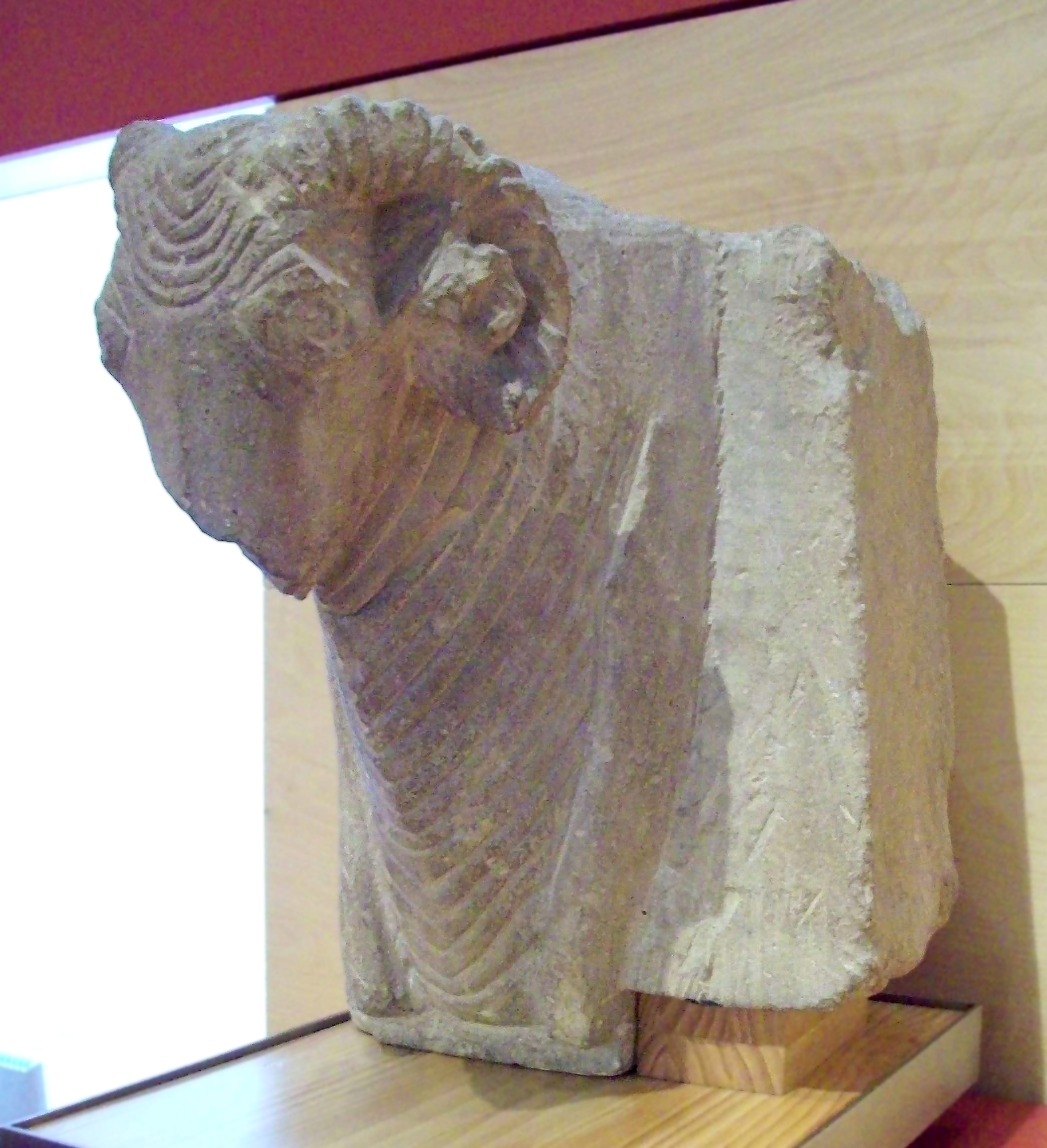 A protome of a ram. Iberian artwork sculpted in an ashlar. It's part of the so-called Sculptures of Osuna.